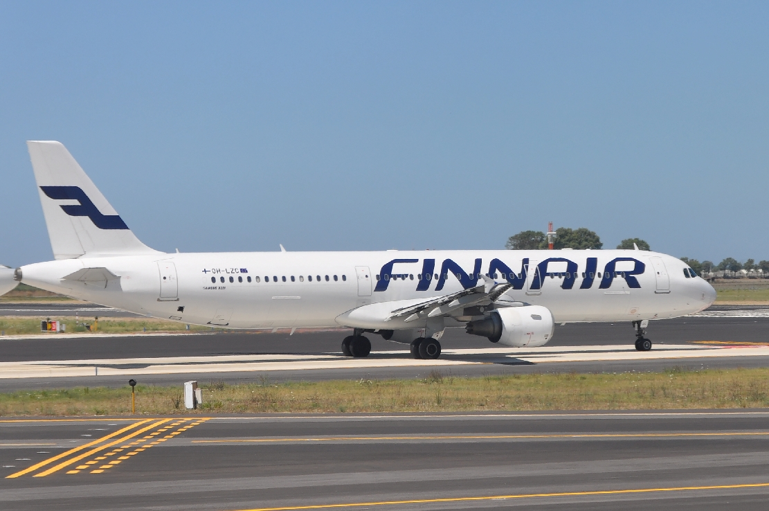 Aircraft at Fiumicino Airport 2013